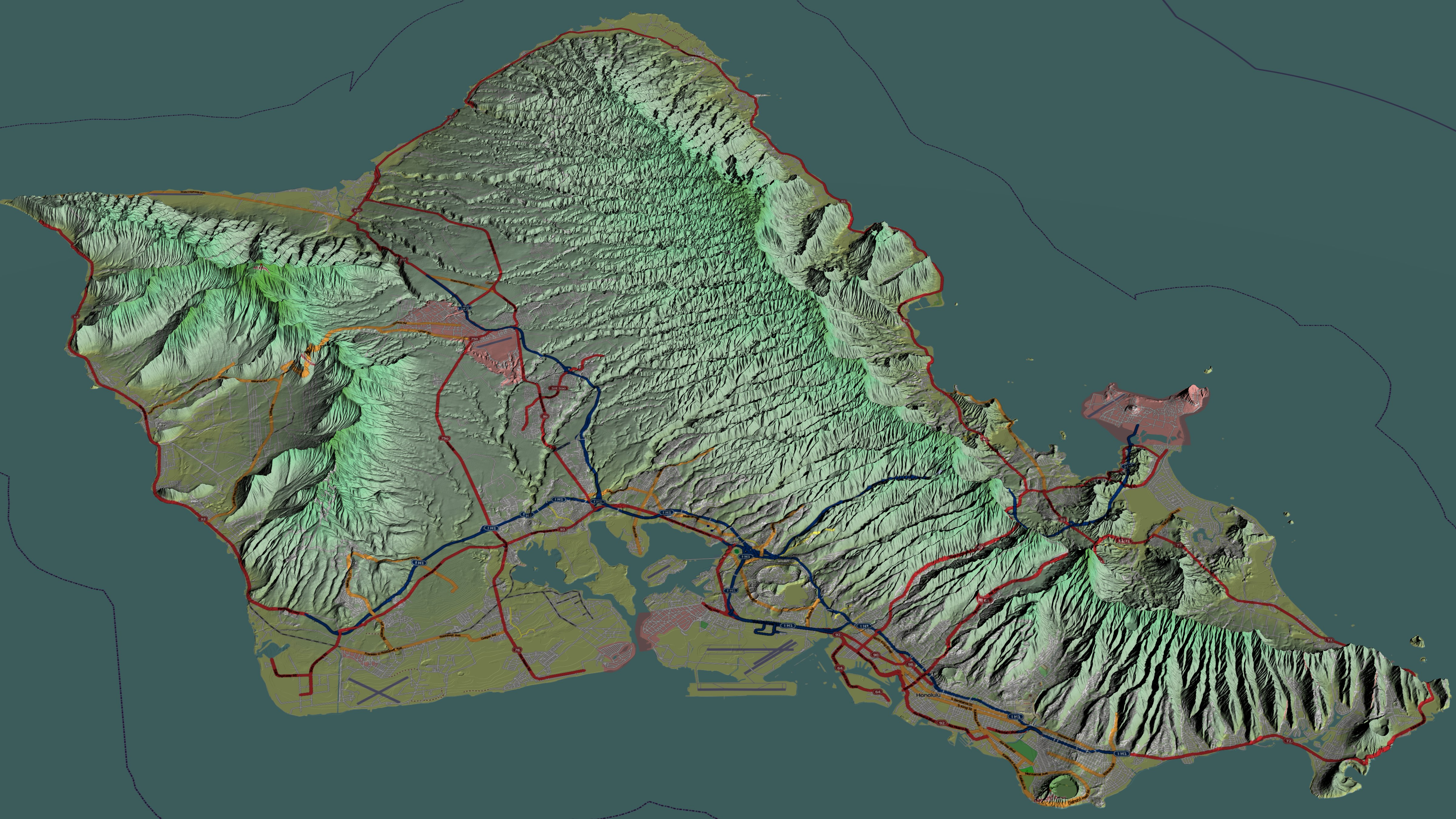 Oahu, Hawaii, computer image generated using TruFlite